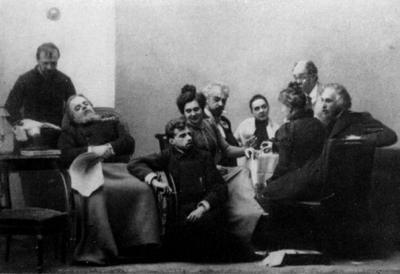 The Moscow Art theatre's 1898 production of Anton Chekhov's play The Seagull, with Meyerhold seated on the floor, centre, and Stanislavski on the far right; published in Efros' journal in 1917